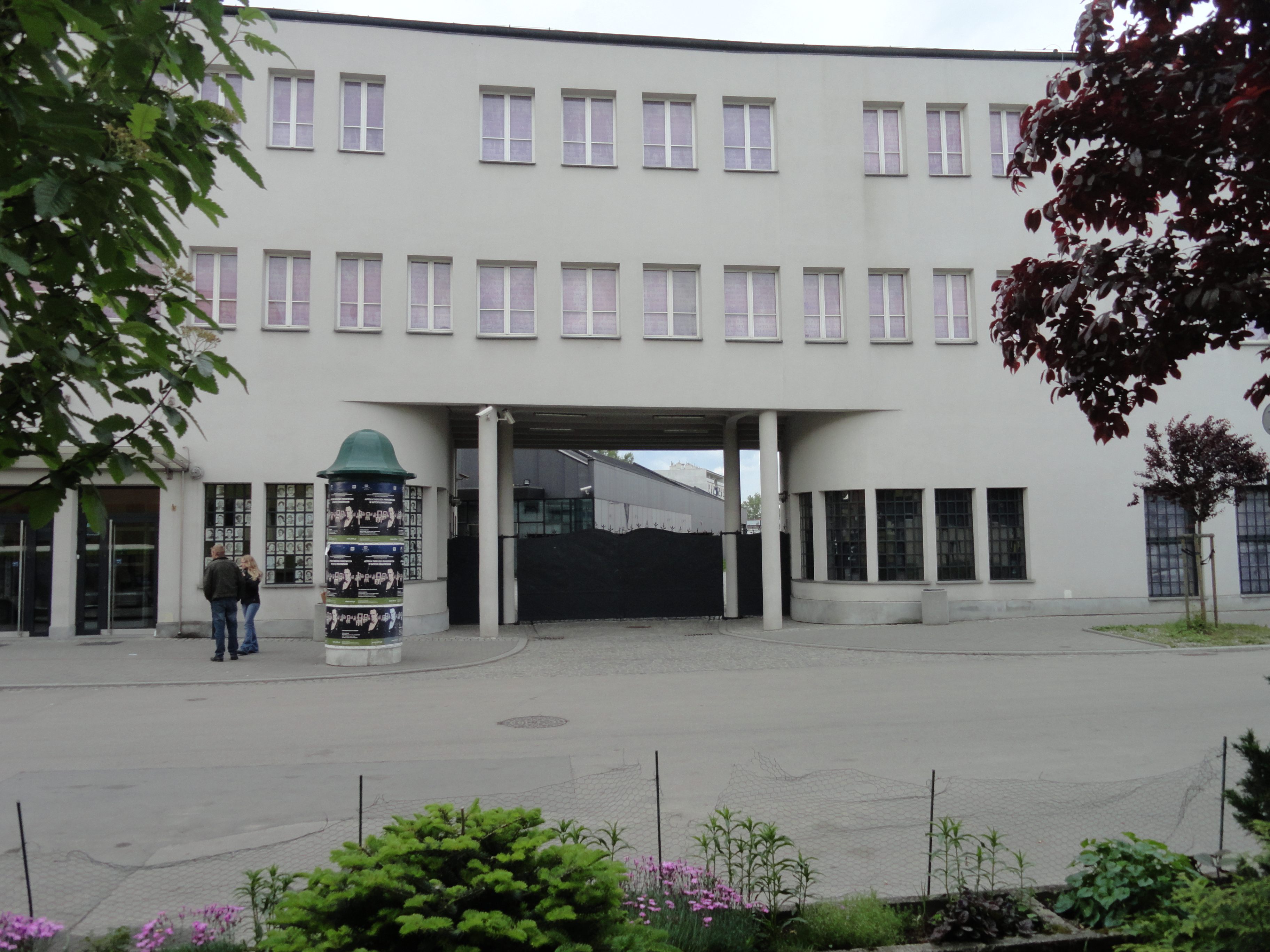 Oskar Schindler's Emalia Factory